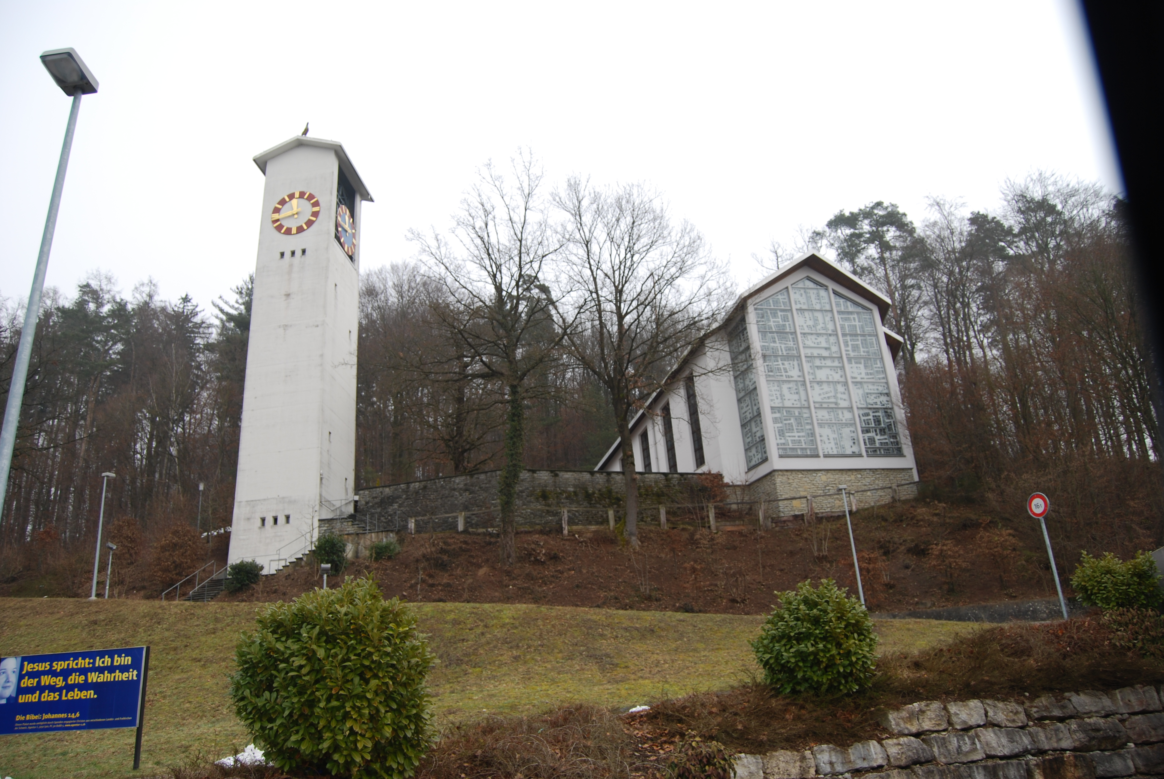 Protestant church of Muhen, canton of Aargau, SwitzerlandEsperanto: Reformita preĝejo de Muhen, Kantono Argovio, Svislando